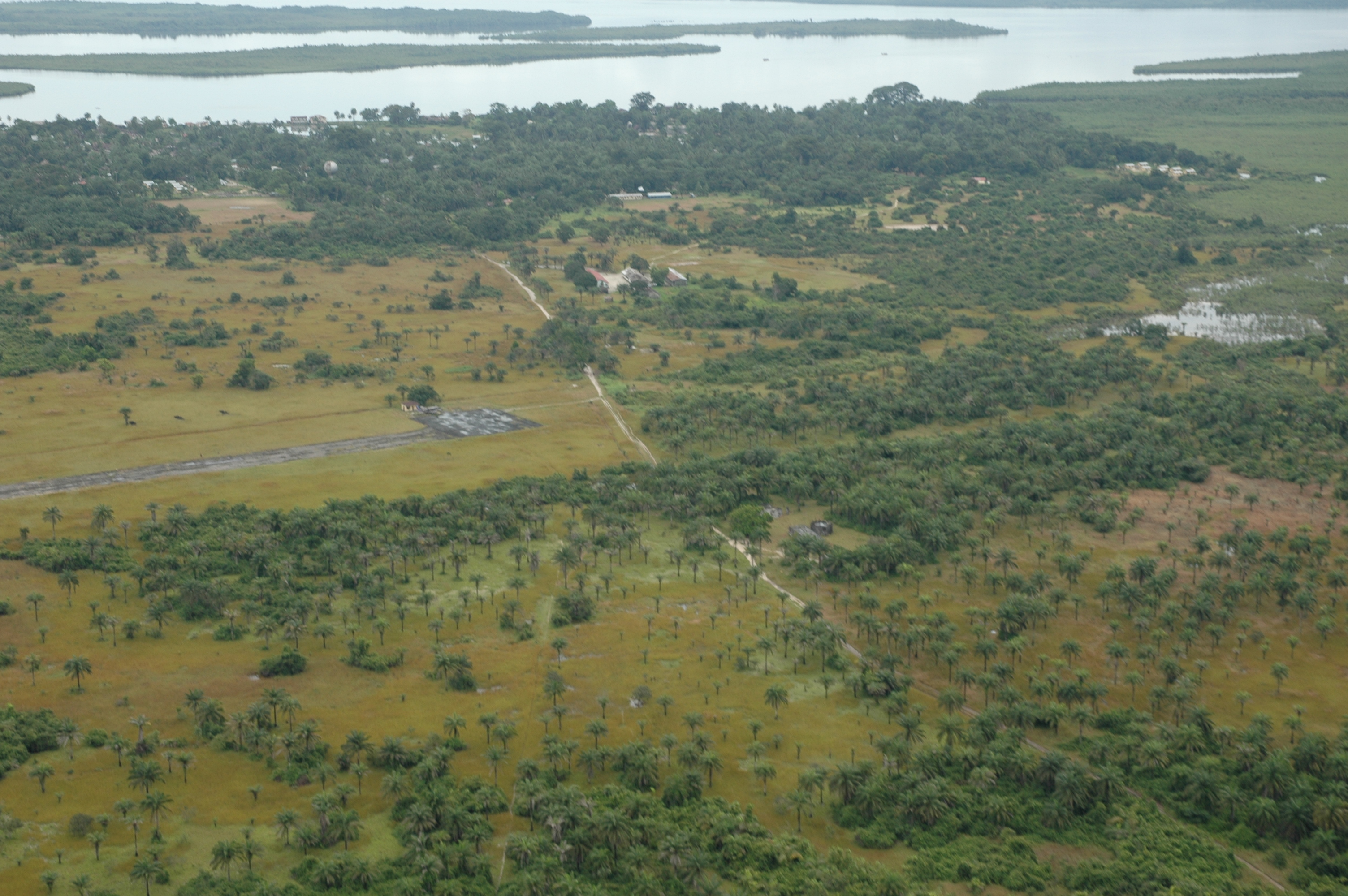 Sherbro Island